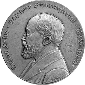 Some description in English.